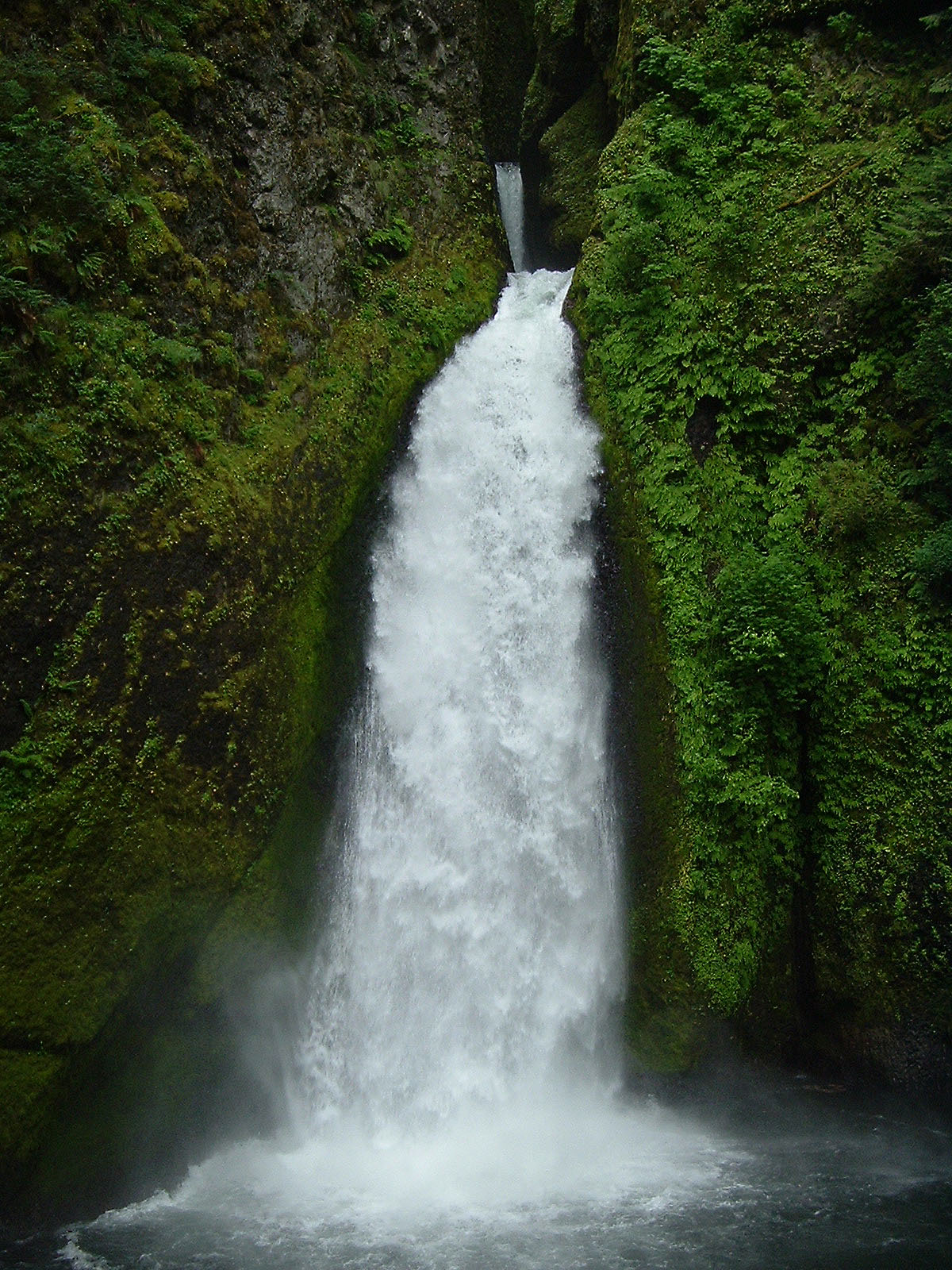 This picture of Wahclella Falls was taken from the closest vantage to the falls